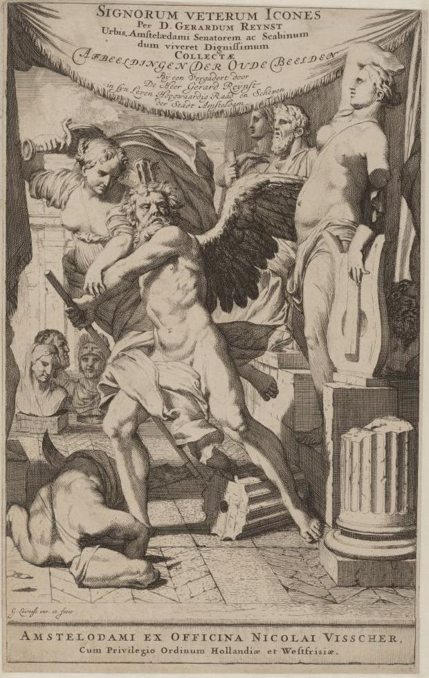 Title page of Gerard Reijnst's book called Signorum Veterum Icones (Dutch title: Afbeeldingen der oude beelden), based on his collection of Italian statuary brought back to Amsterdam from Venice by his brother Jan. He bought the statuary in 1629 from the estate of Andrea Vendramin.